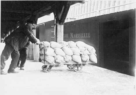 Digital Image Number: I0003382.jpg Title: Dominion Salt workers loading salt into rail car Date: 1909 Creator: John Boyd Format: Black and white print Reference Code: C 7-3 Item Reference Code: 1977 Subject: LABORERS,Salt industry,Loading docks